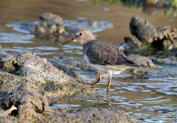 Temminck's Stint Calidris temminckii at Hodal in Faridabad District of Haryana, India.